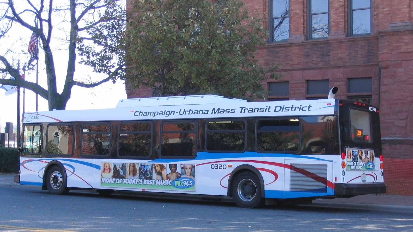 Champaign-Urbana Mass Transit District New Flyer D40LF bus 0320 next to the Champaign County Courthouse